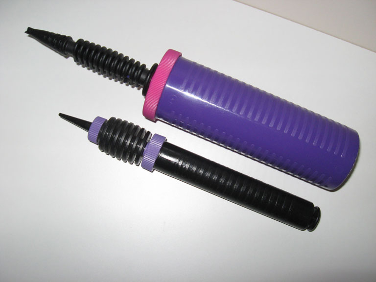 Small Balloon pumps